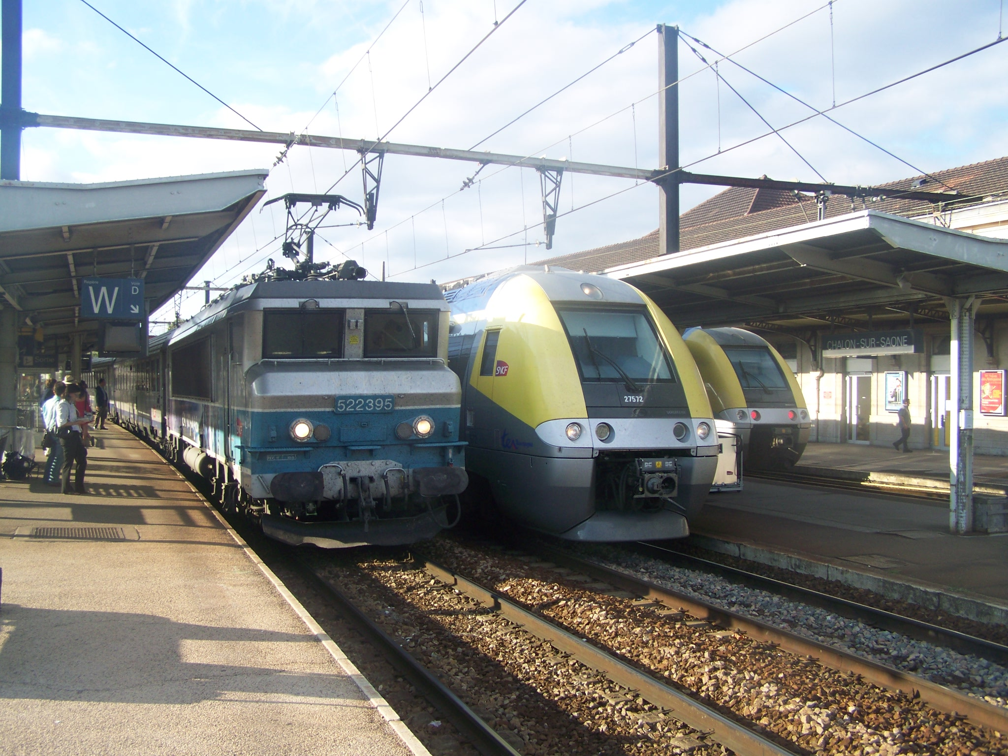 French regional trains (train to Bourg St-Maurice on the left) at the station of Chalon sur Saône in Saône-et-Loire.